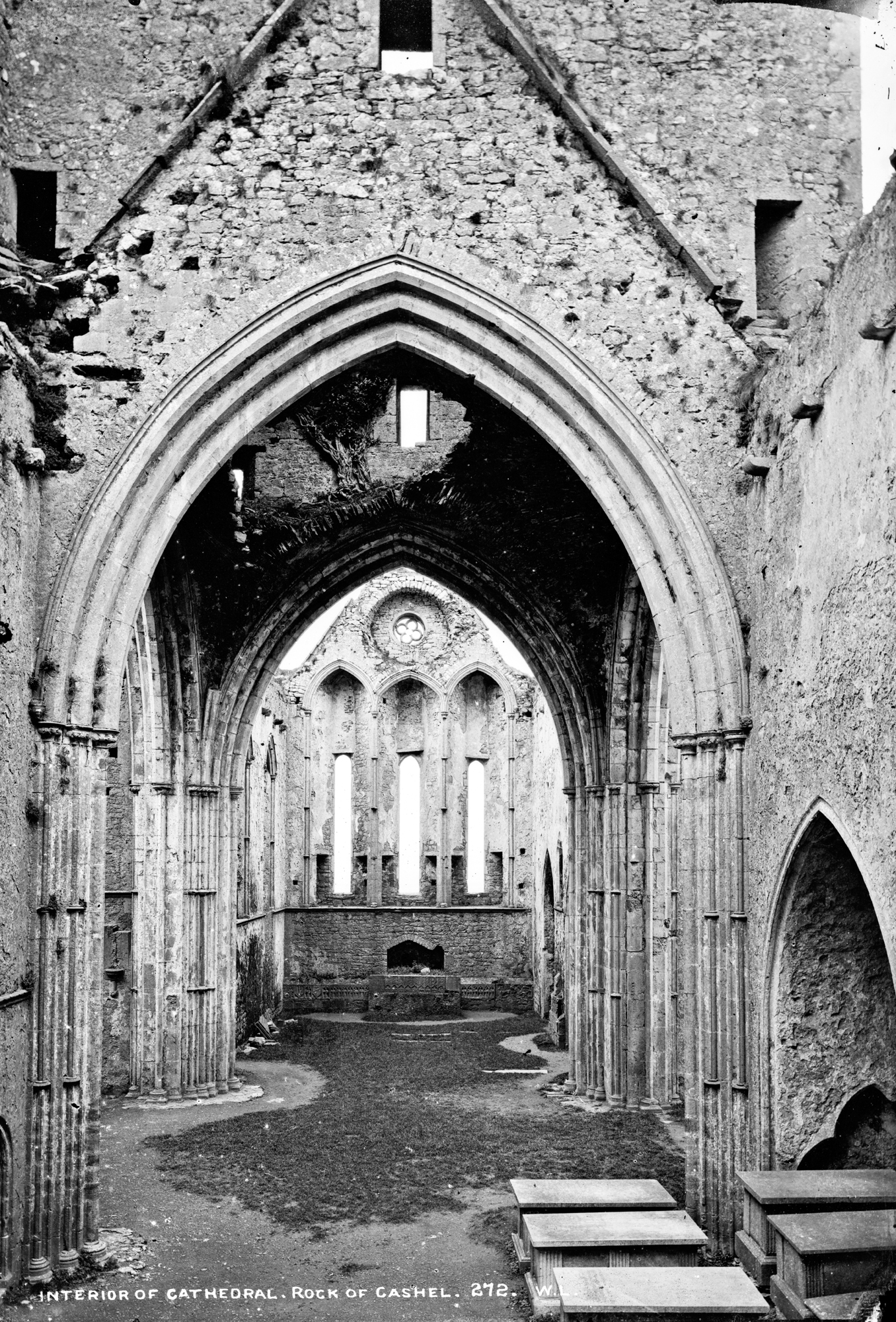 I know, I know! Someone in Library Towers was on the sauce last evening but it wasn't me!!!!!! How the Cathedral on the Rock of Cashel was transmogrified to become "Crawford's Burn Bridge and Waterfall" is a mystery! Then again the Devils race against Fionn MacCumhaill did begin up near the Burn and ended near Cashel???? Photographer: Robert French Collection: Lawrence Photograph Collection Date:between ca. 1865-1914 NLI Ref: L_CAB_00272 You can also view this image, and many thousands of others, on the NLI’s catalogue at